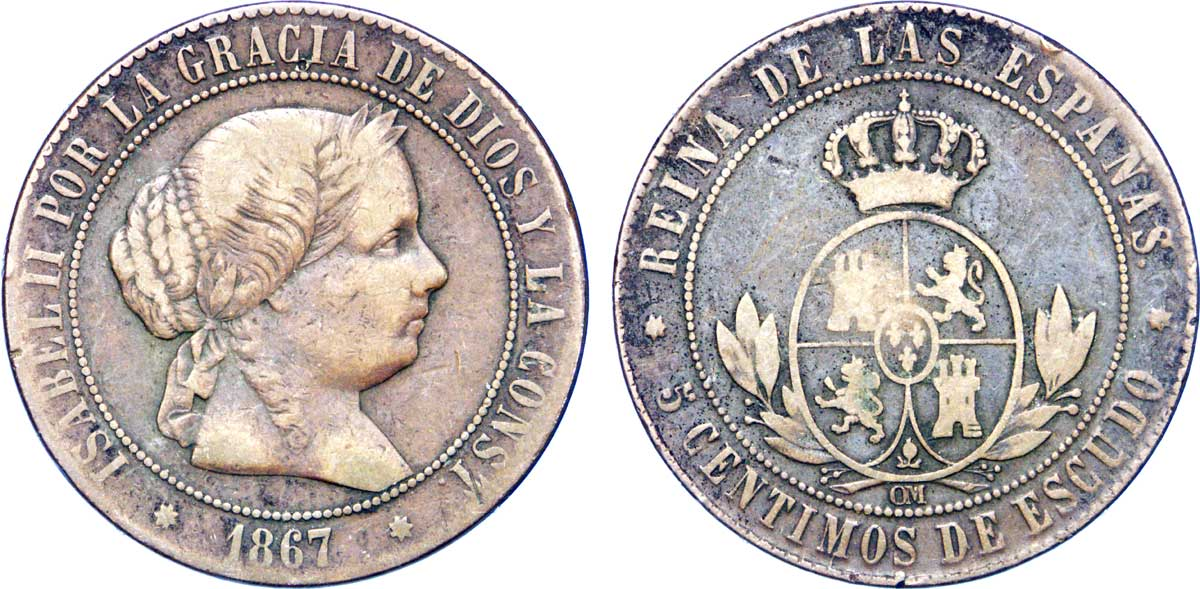 5 Centimos de Escudo à l'effigie de la reine Isabelle II, 1867